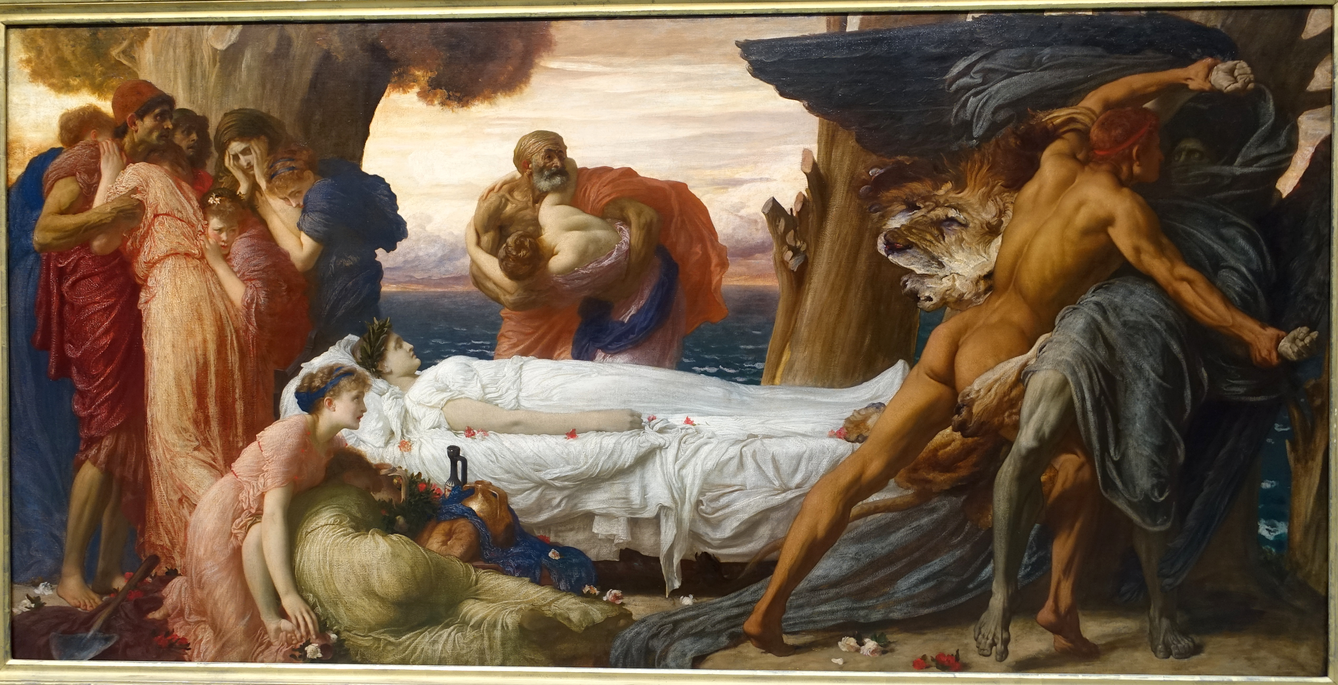 Exhibit in the Wadsworth Atheneum - Hartford, Connecticut, USA. This work is old enough so that it is in the public domain.